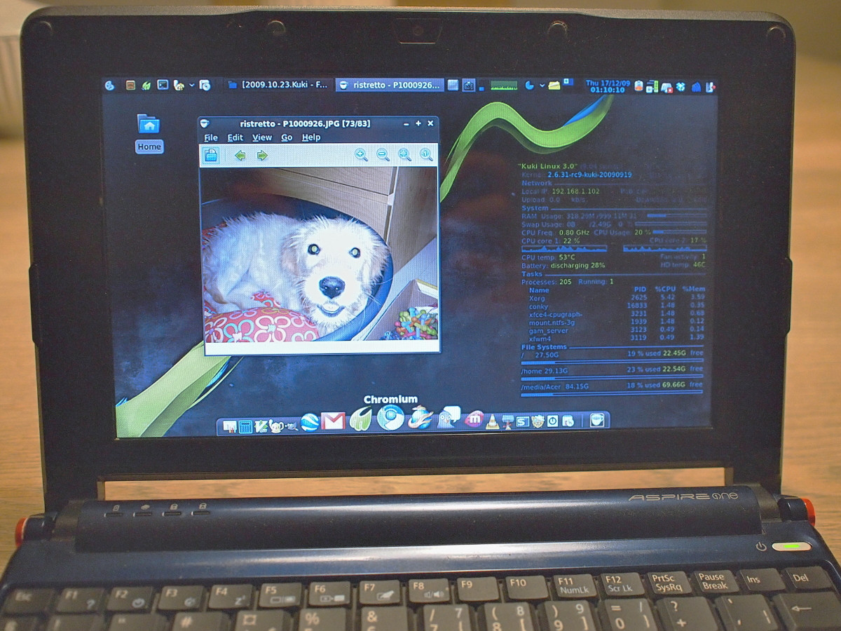 Kuki Linux with a few bells and whistles running on an Acer Aspire One ZG5 (2009).